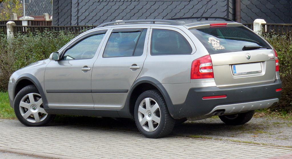 Skoda Octavia Scout